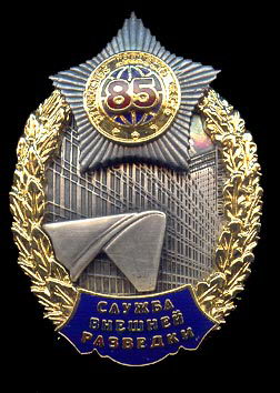 SVR Commemorative badge: 85 years of the Soviet/Russian Political Intelligence